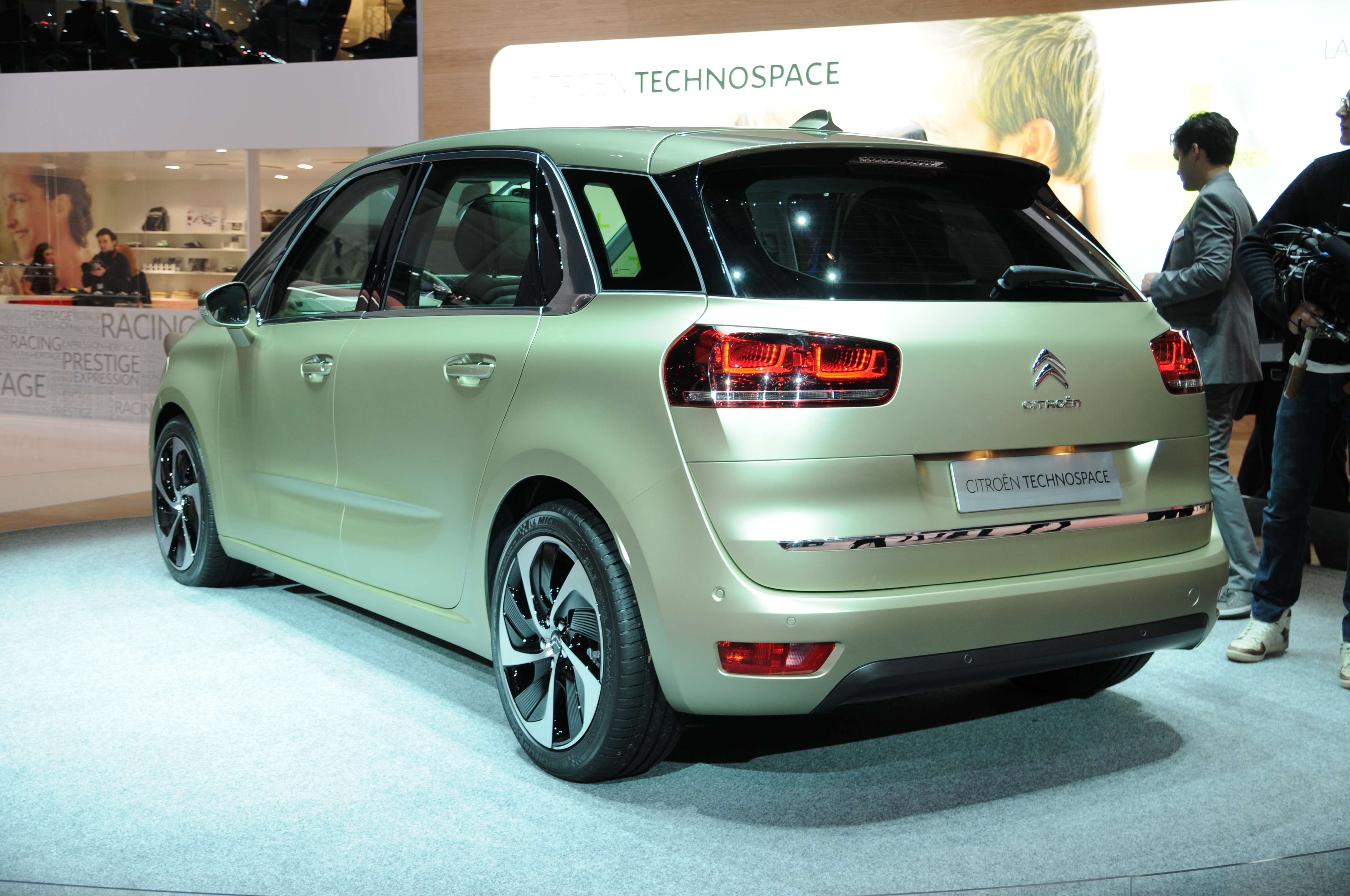 Geneva Motor Show 2013 (photos taken on the first press day)